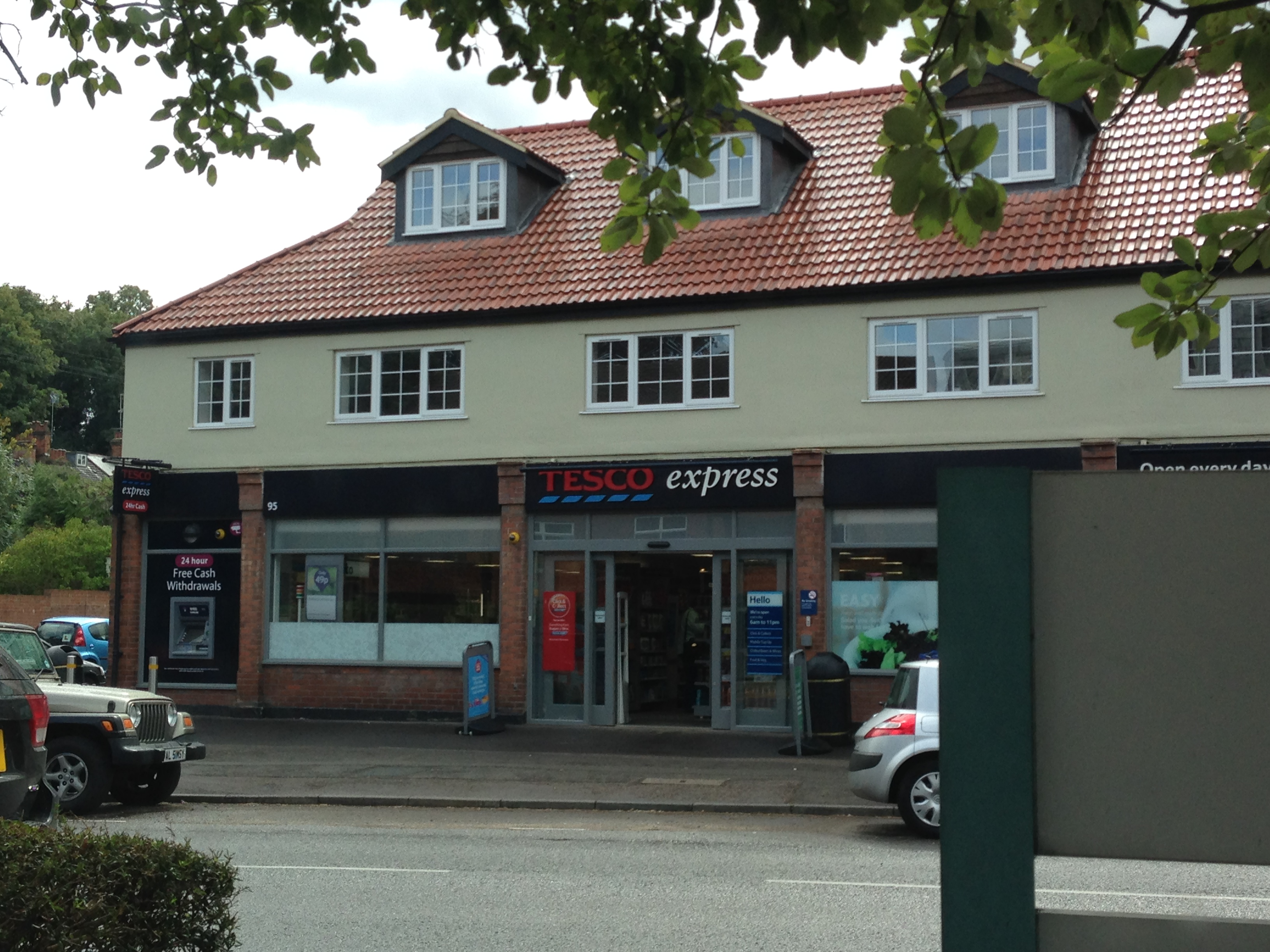 A Tesco Express store on Luton Road in Harpenden